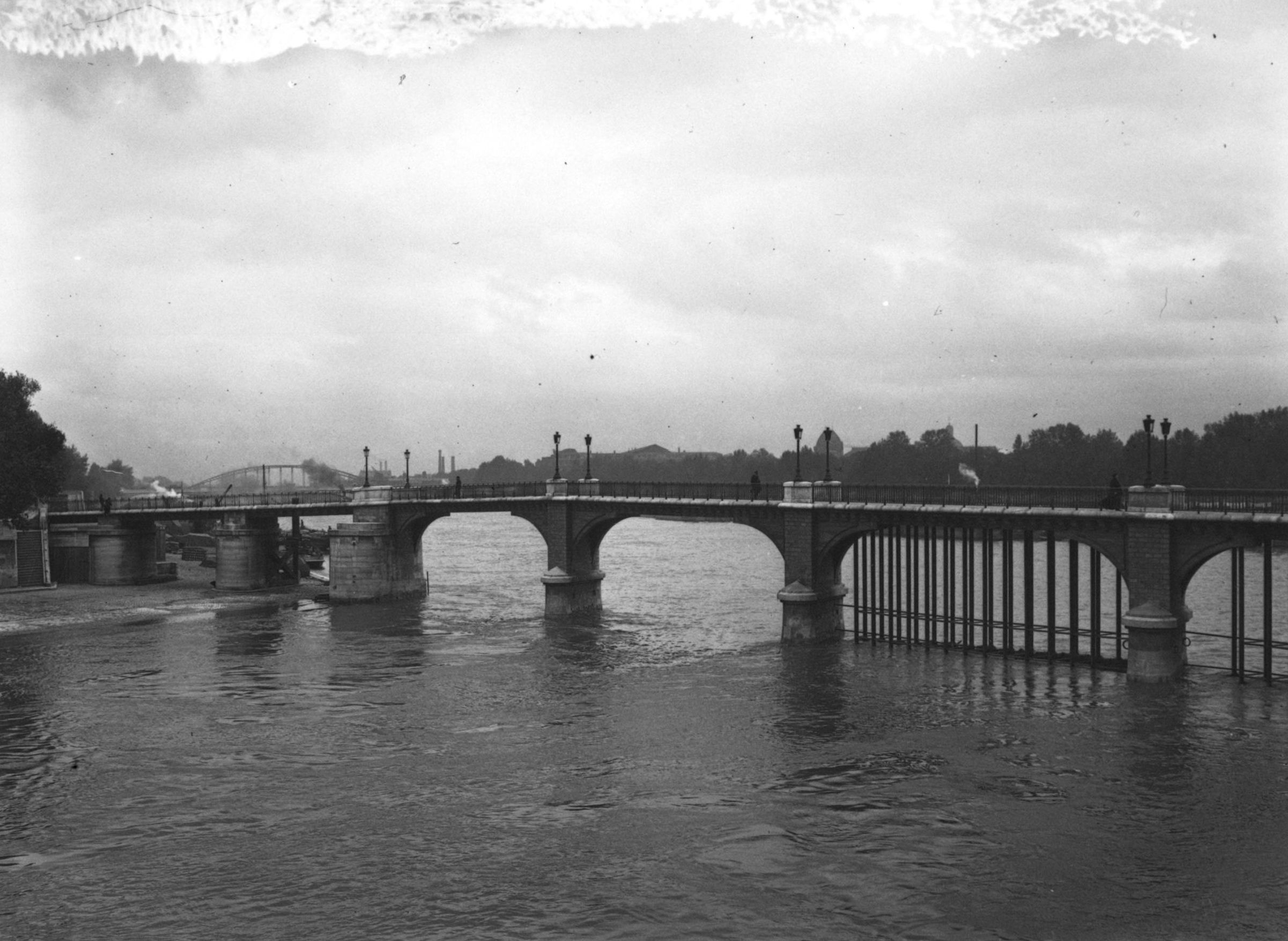 The pont de l'Estacade, rebuilt after the floods of 1910, Agence Rol.